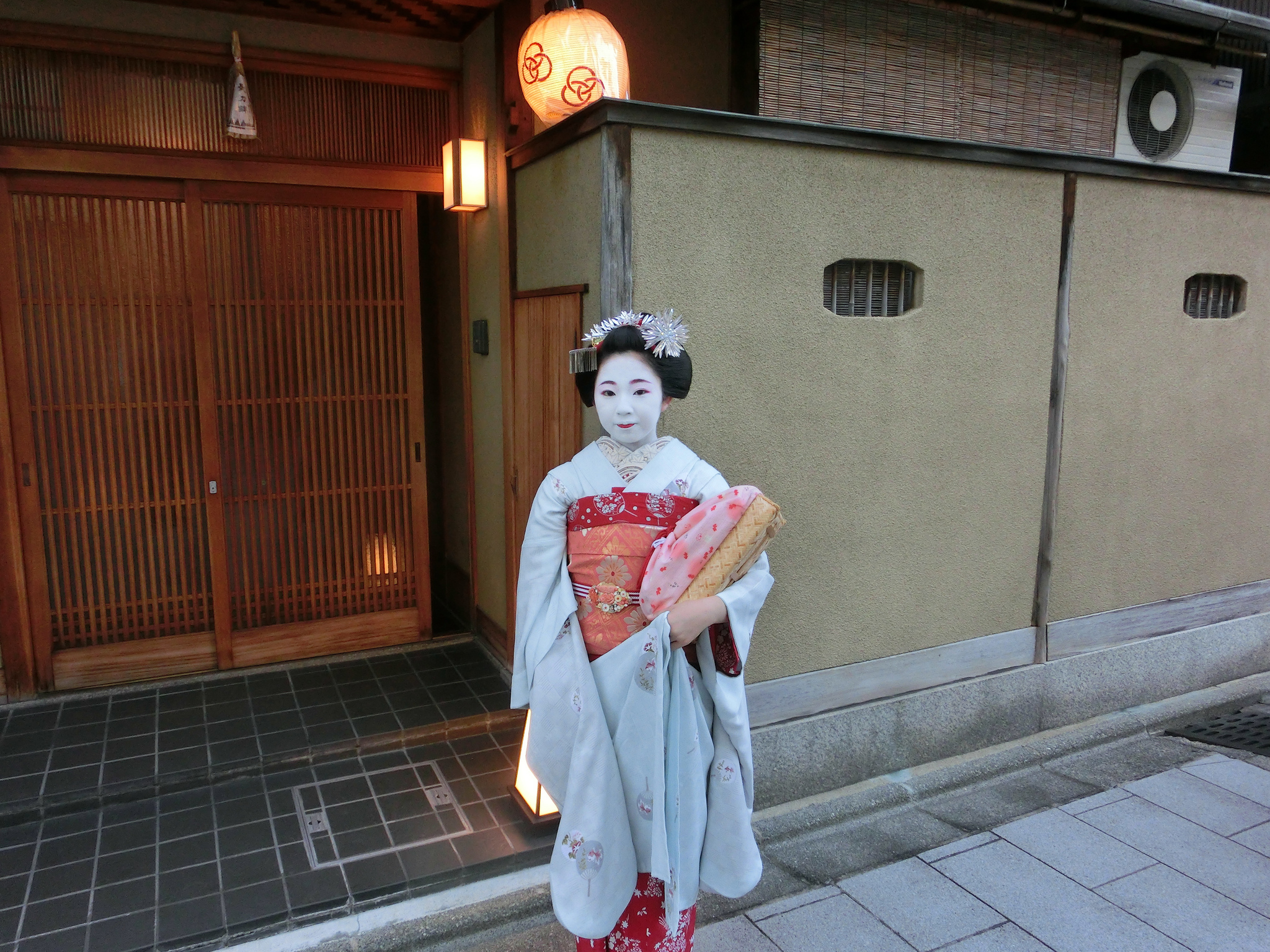 Maiko Toshimomo stands next to her okiya (Komaya okiya in Miyagawa-chô) wearing susuki kanzashi.